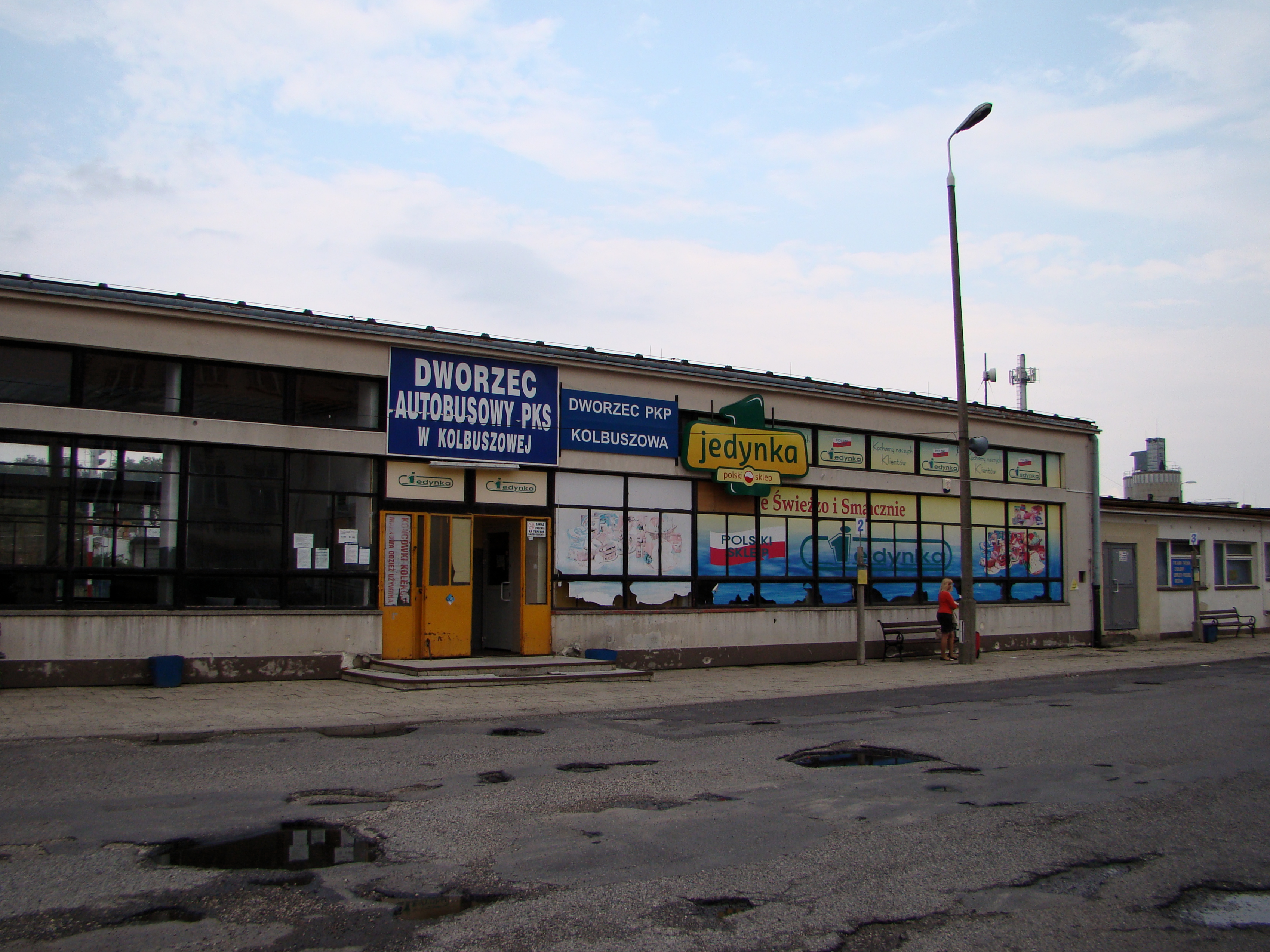 Kolbuszowa - Bus and train station